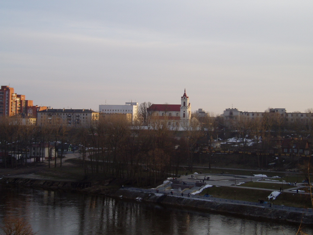 Horadnia, Belarus